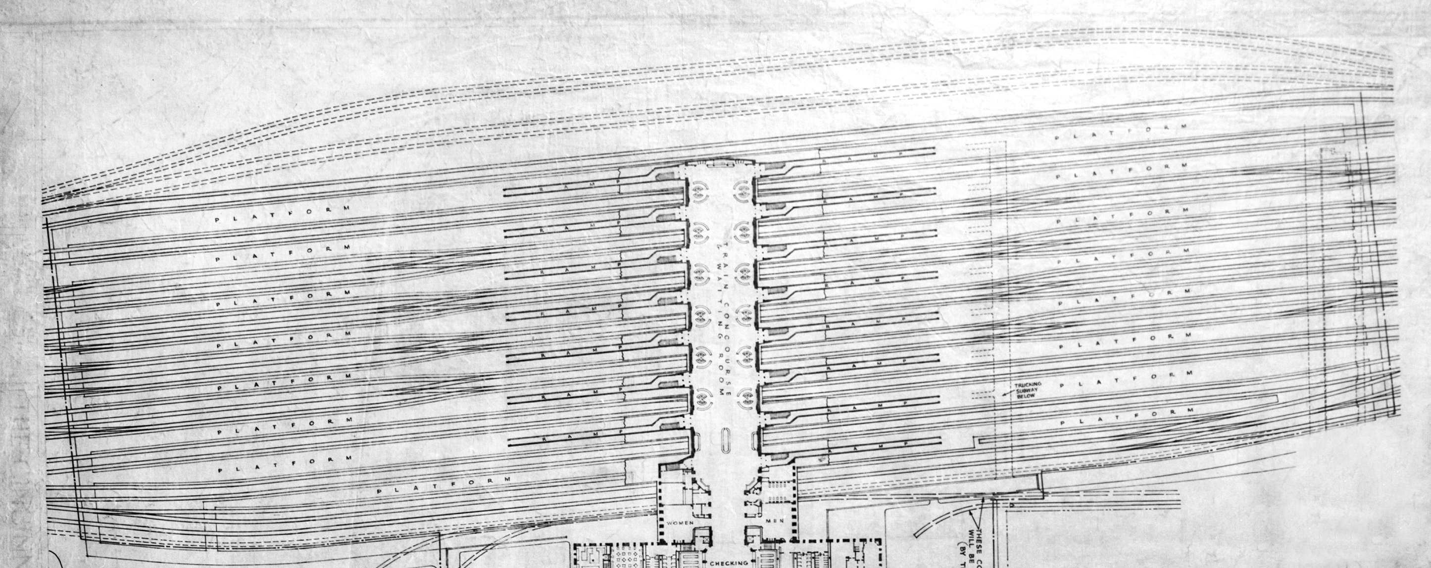 Track and platform layout of Cincinnati Union Terminal.